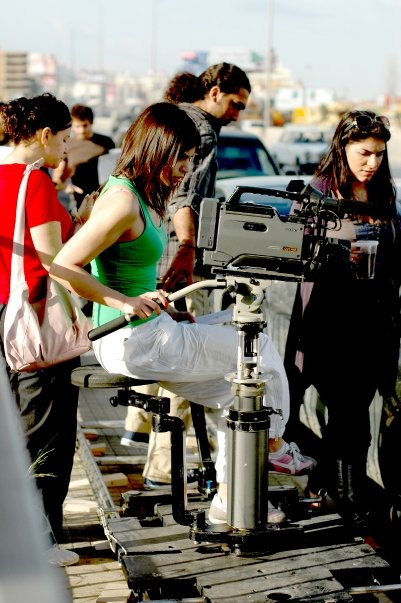 Actress Rita Hayek seen on the set of "Feu Rouge"